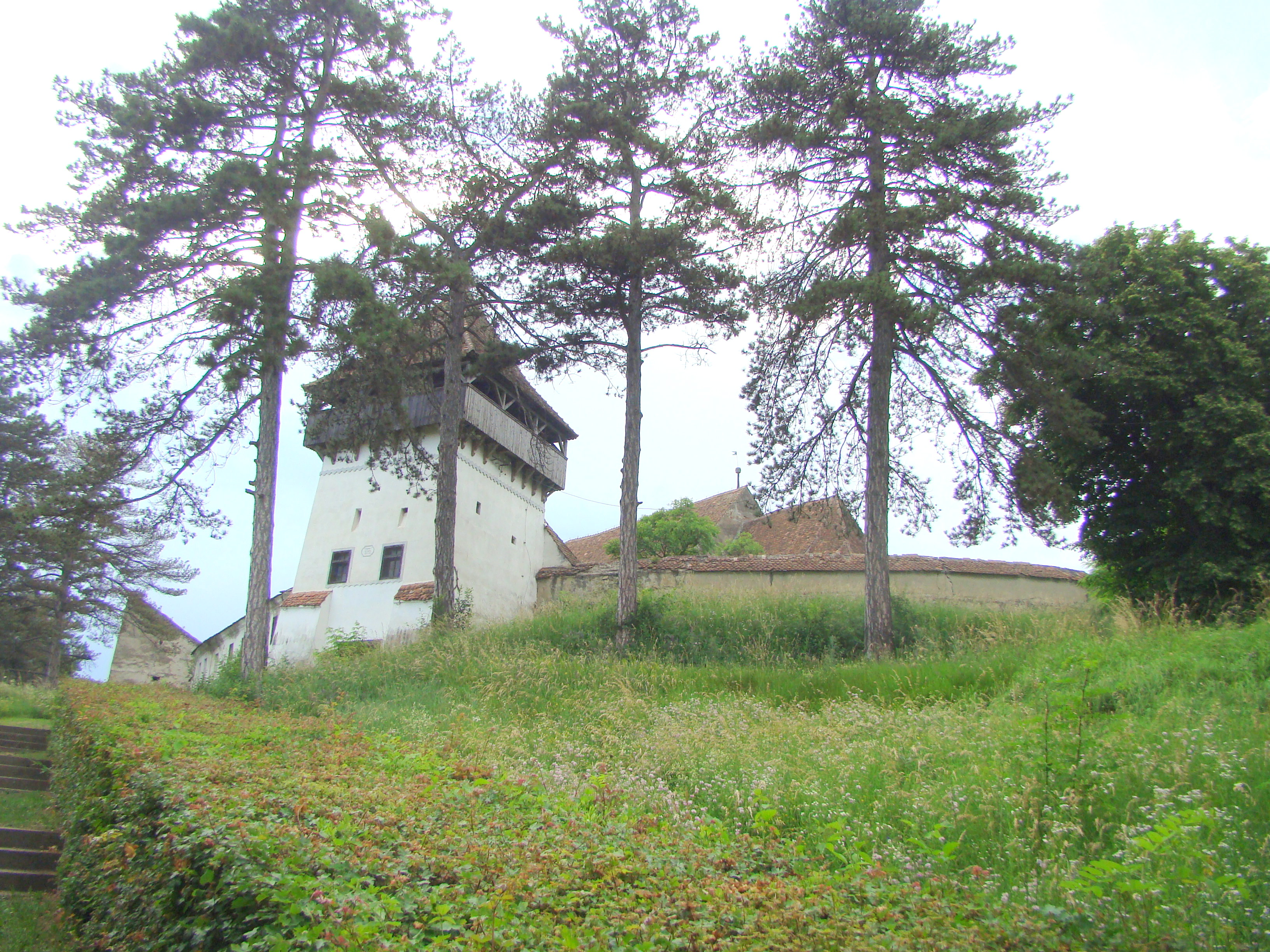 Fortified church in Ungra, Braşov County, Romania